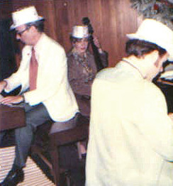 Jazzmen Dick Hyman and Bubba Kolb on New Year's Eve